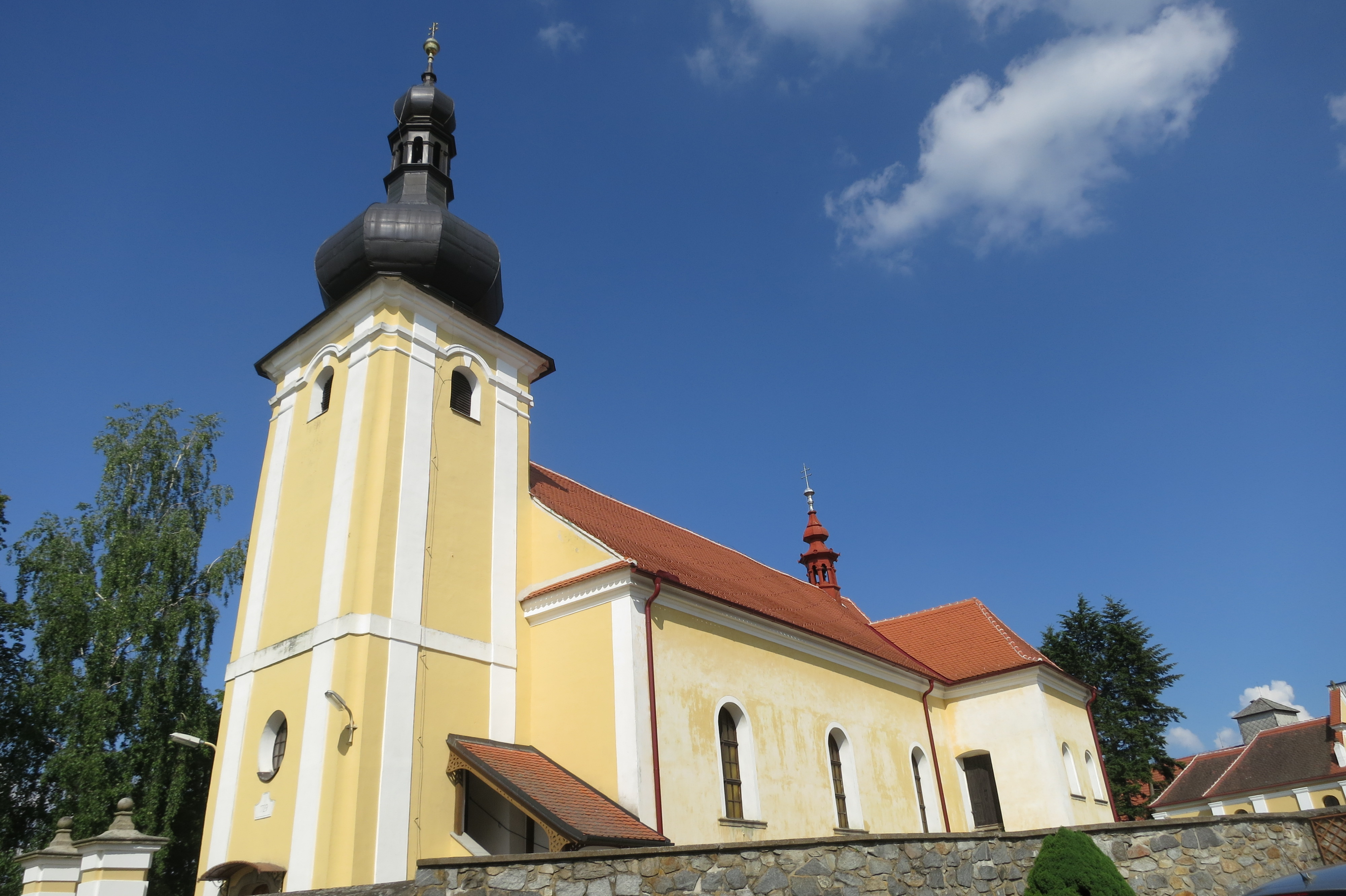 Side view of church of Saint Martin in Budkov, Třebíč District.